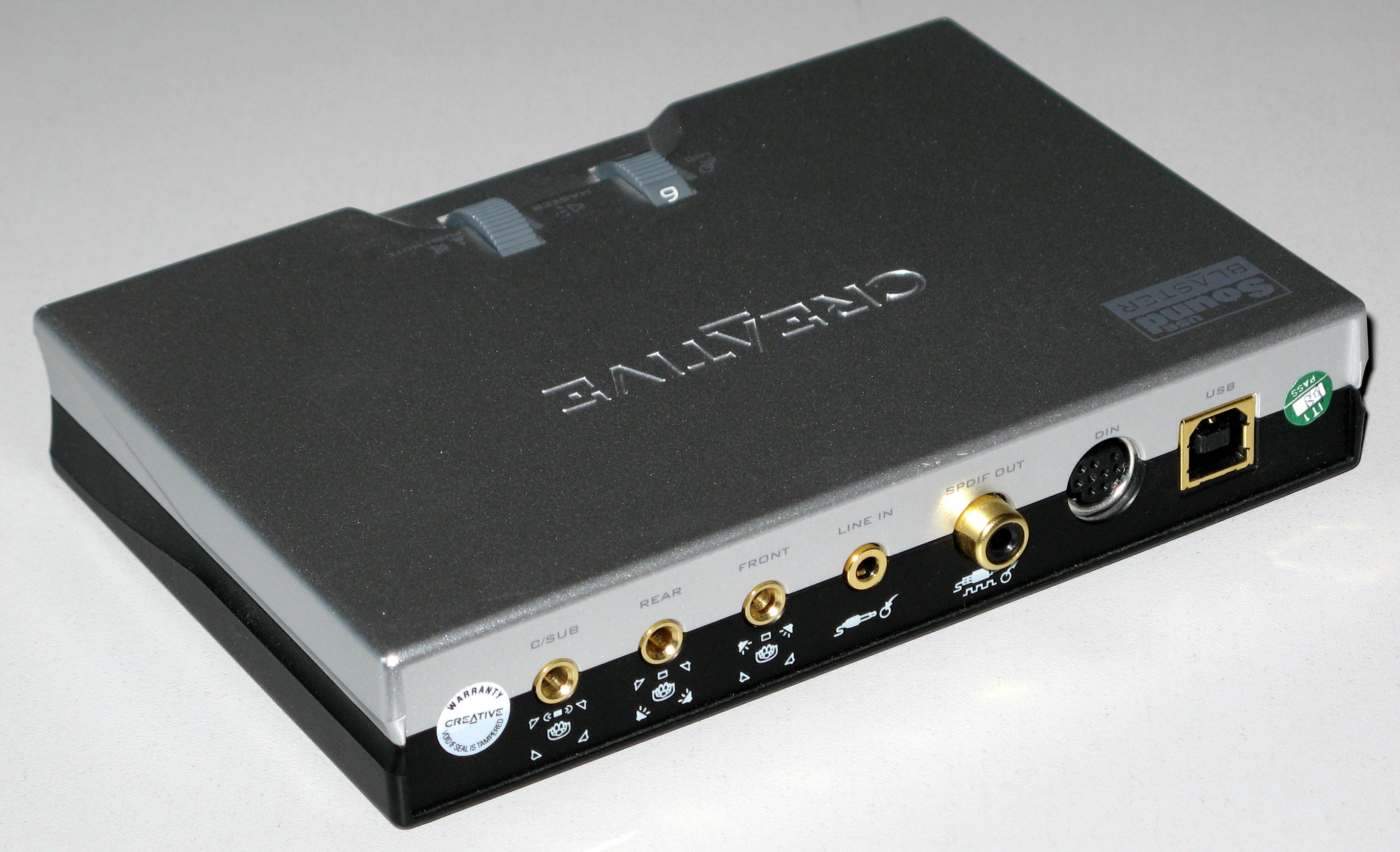 USB soundcard Soundblaster Live! 24-bit external